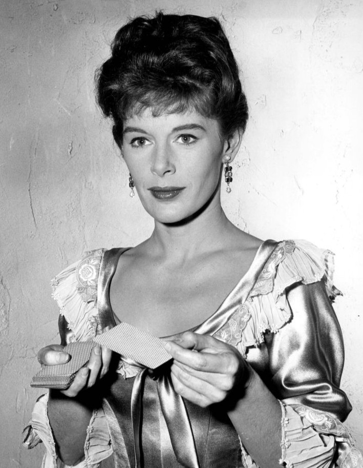 Photo of Diane Brewster from an appearance on the short-lived television program The Dakotas. Brewster played the wife of a double-dealing lawman in the "Fargo" episode.